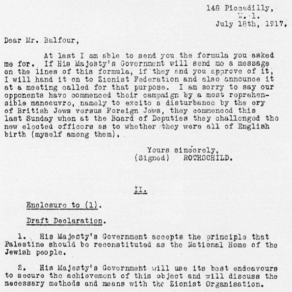 A copy of Lord Rothschild's initial Balfour Declaration draft, dated 18 July 1917, in British War Cabinet Papers from 1917. Balfour's initial draft reply of August 1917 has been cropped off (see earlier version below)